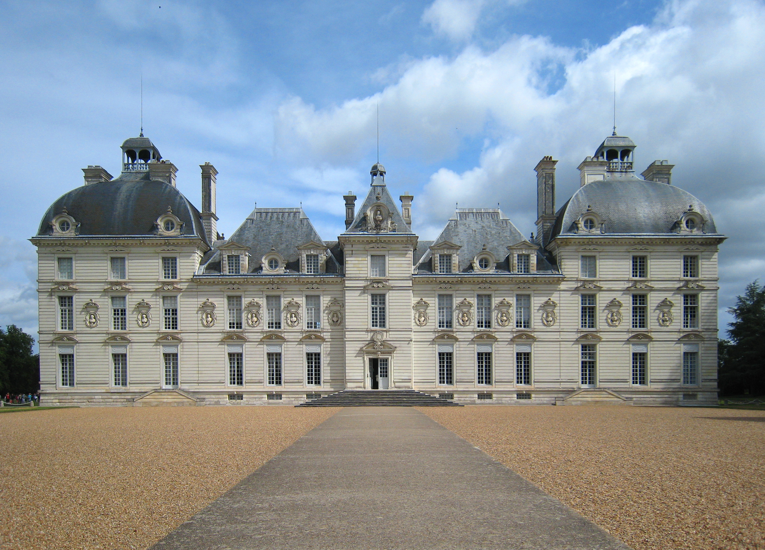 Castle of Cheverny